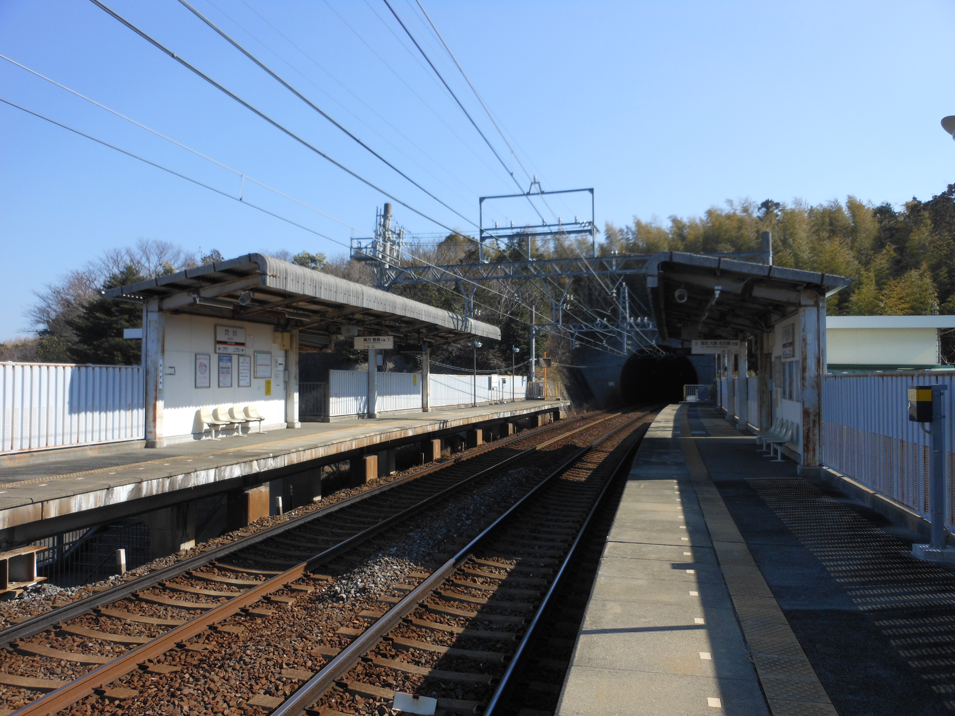 This is the Kintetsu Anagawa station in Isobecho-Anagawa, Shima, Mie, Japan.